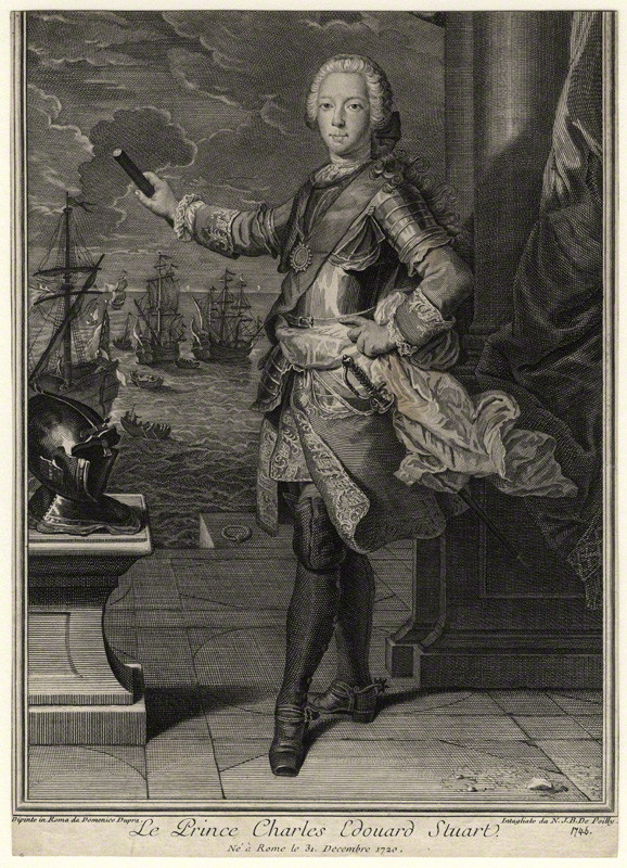 Prince Charles Edward Stuart Given by Henry Witte Martin, 1861